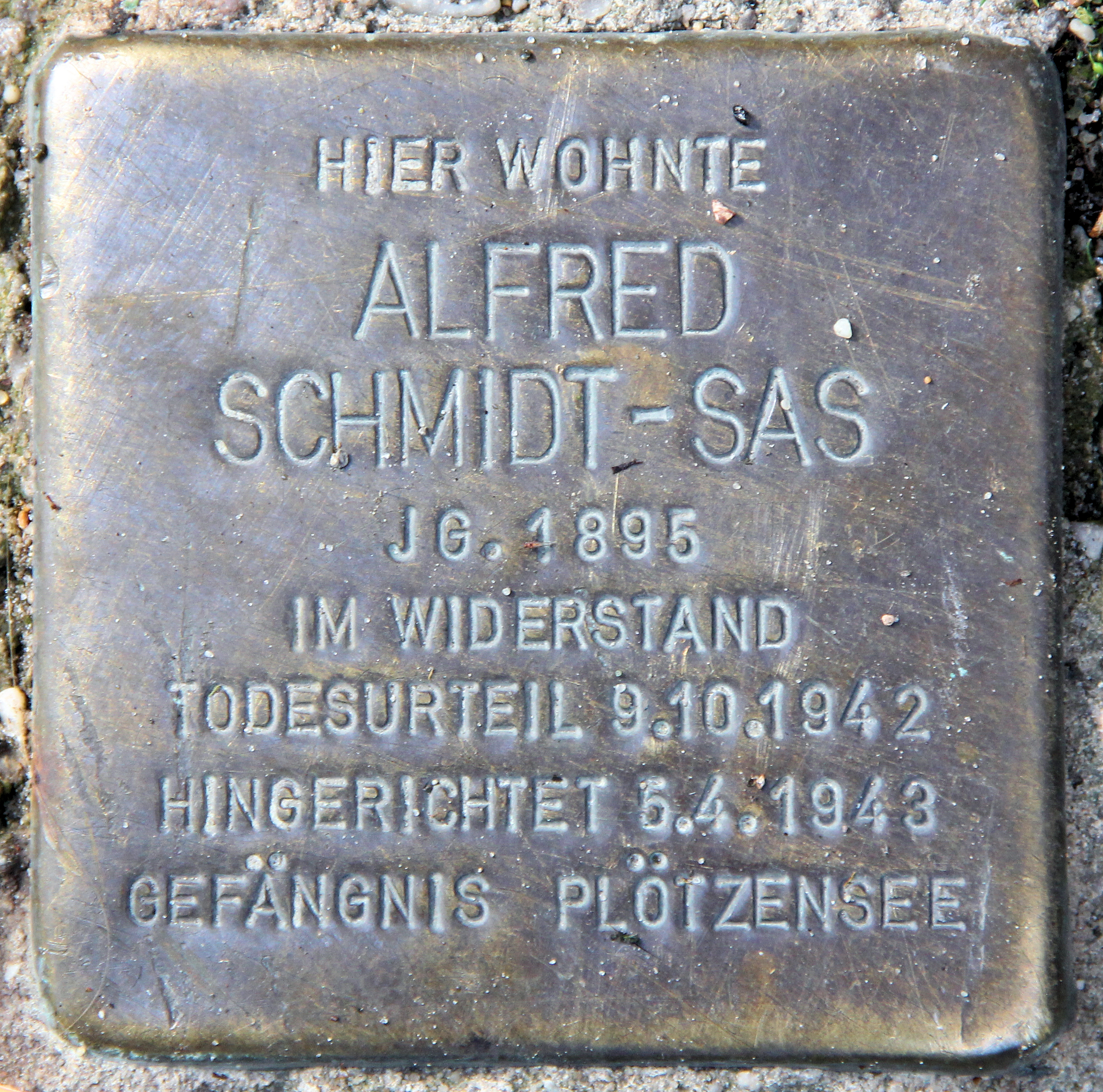 "Stolperstein" (stumbling block), Alfred Schmidt-Sas, Olivaer Platz 5, Berlin-Wilmersdorf, Germany Koordinate:52°29′56″N 13°18′54″E / 52.49889°N 13.315°E